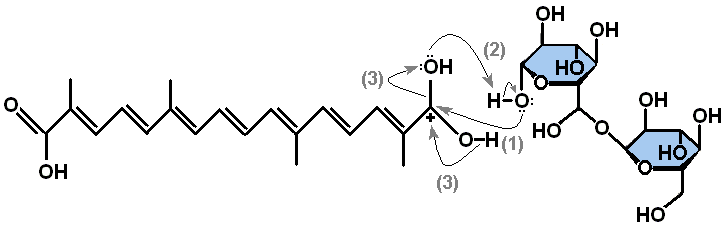 Summary: Esterification reaction involving beta-gentiobiose (blue) and crocetin (the polyene) to form a crocin molecule. Author: Myself, using MS Paint.